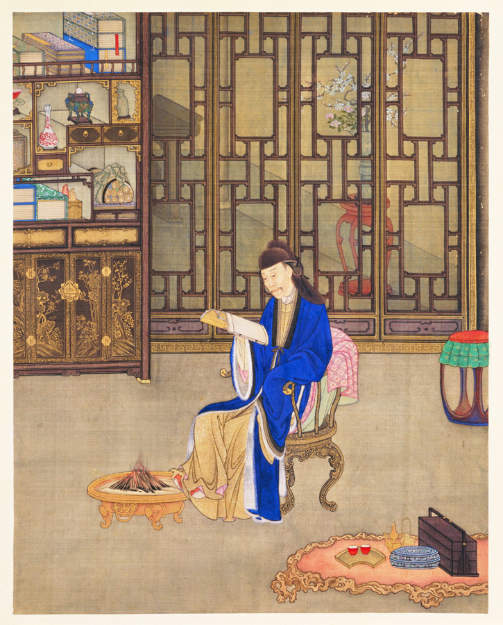 The Yongzheng-Emperor while reading a book.